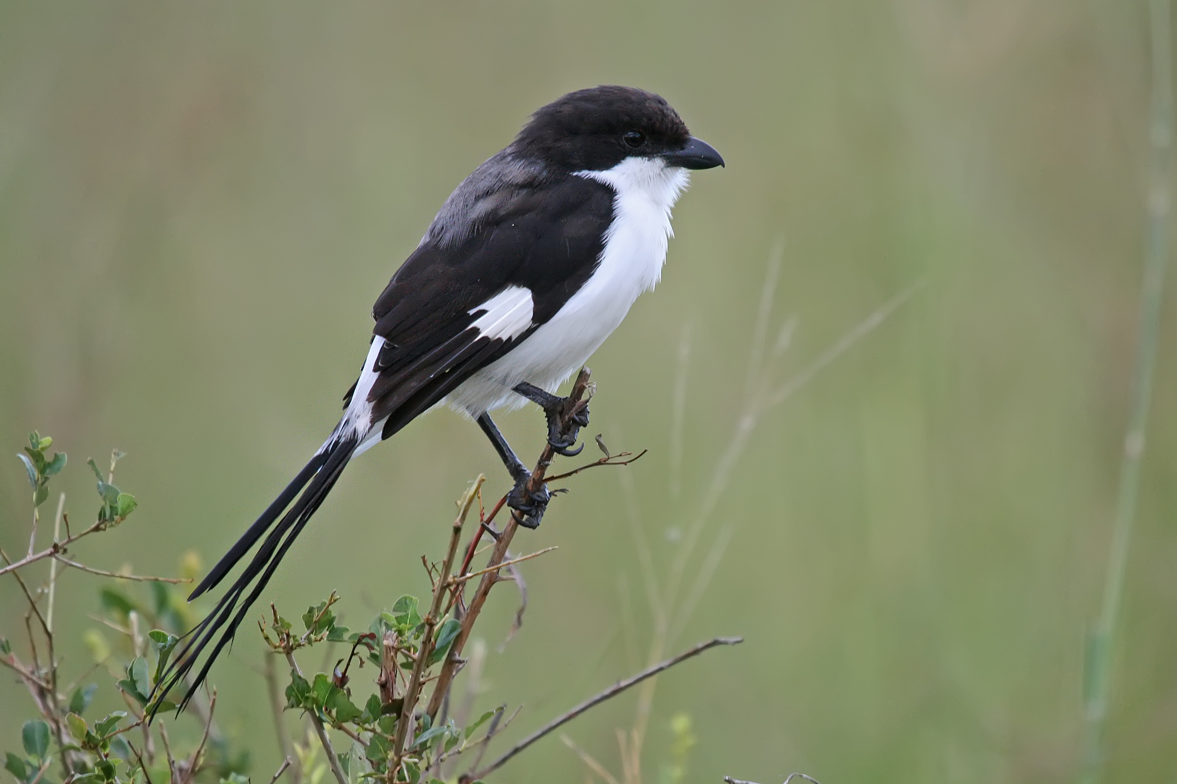 Adult Long-tailed Fiscal Lanius cabanisi, Mikumi National Park, Tanzania